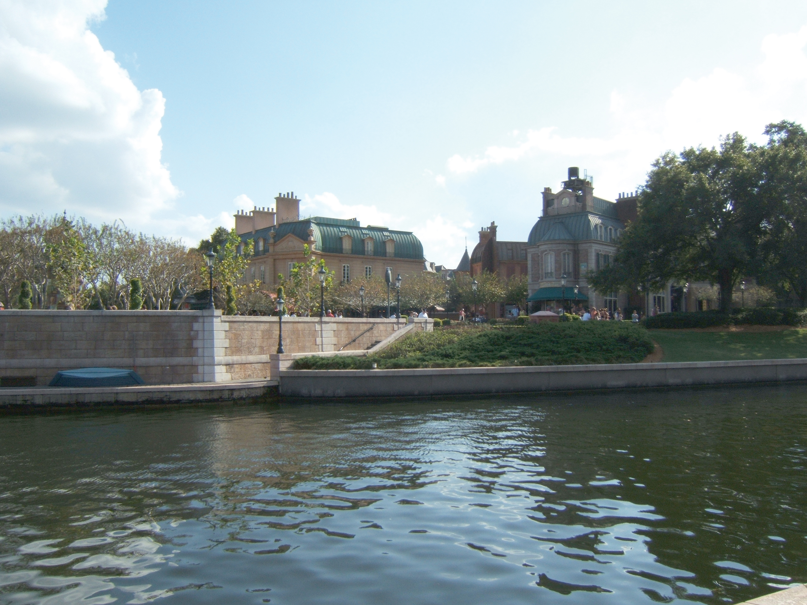 World Showcase, Disney world, pavillon français.